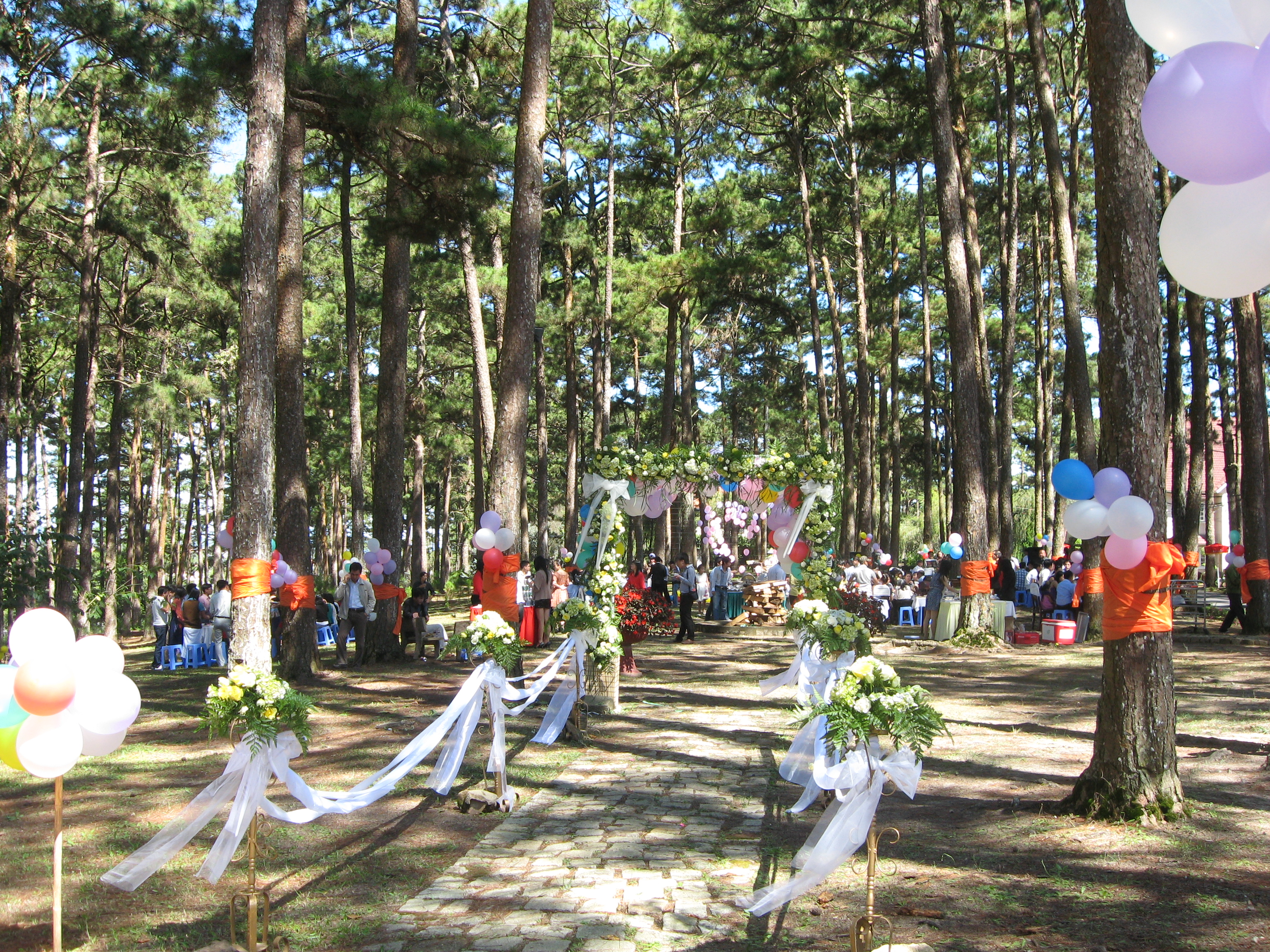 A wedding in Palace II, Da Lat